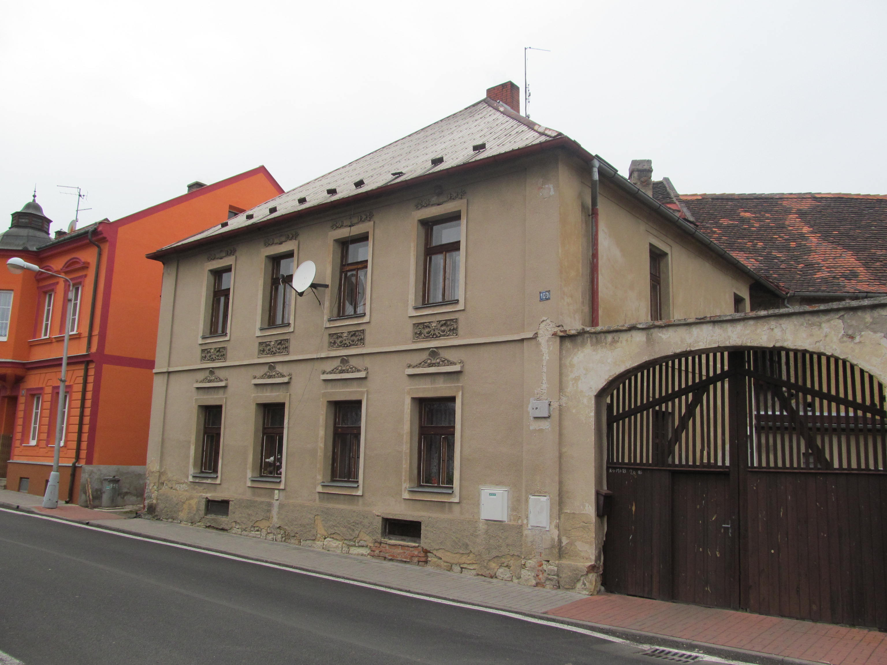 House No 100 in Měcholupy - former the old synagogue